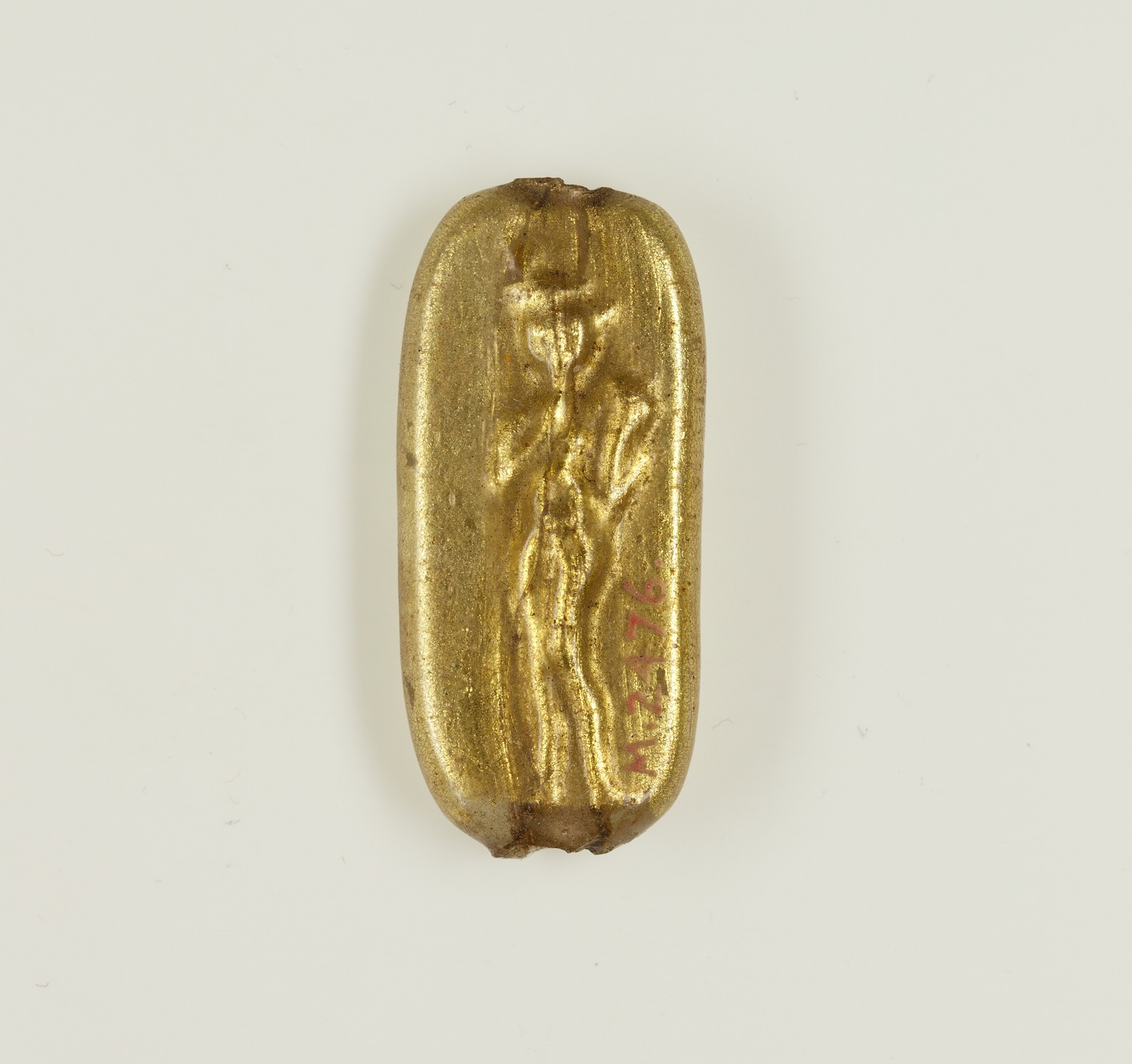 Bead amulet